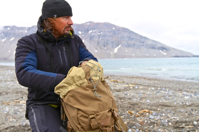 Casey Anderson, Mystery Ranch Backpacks, Svalbard